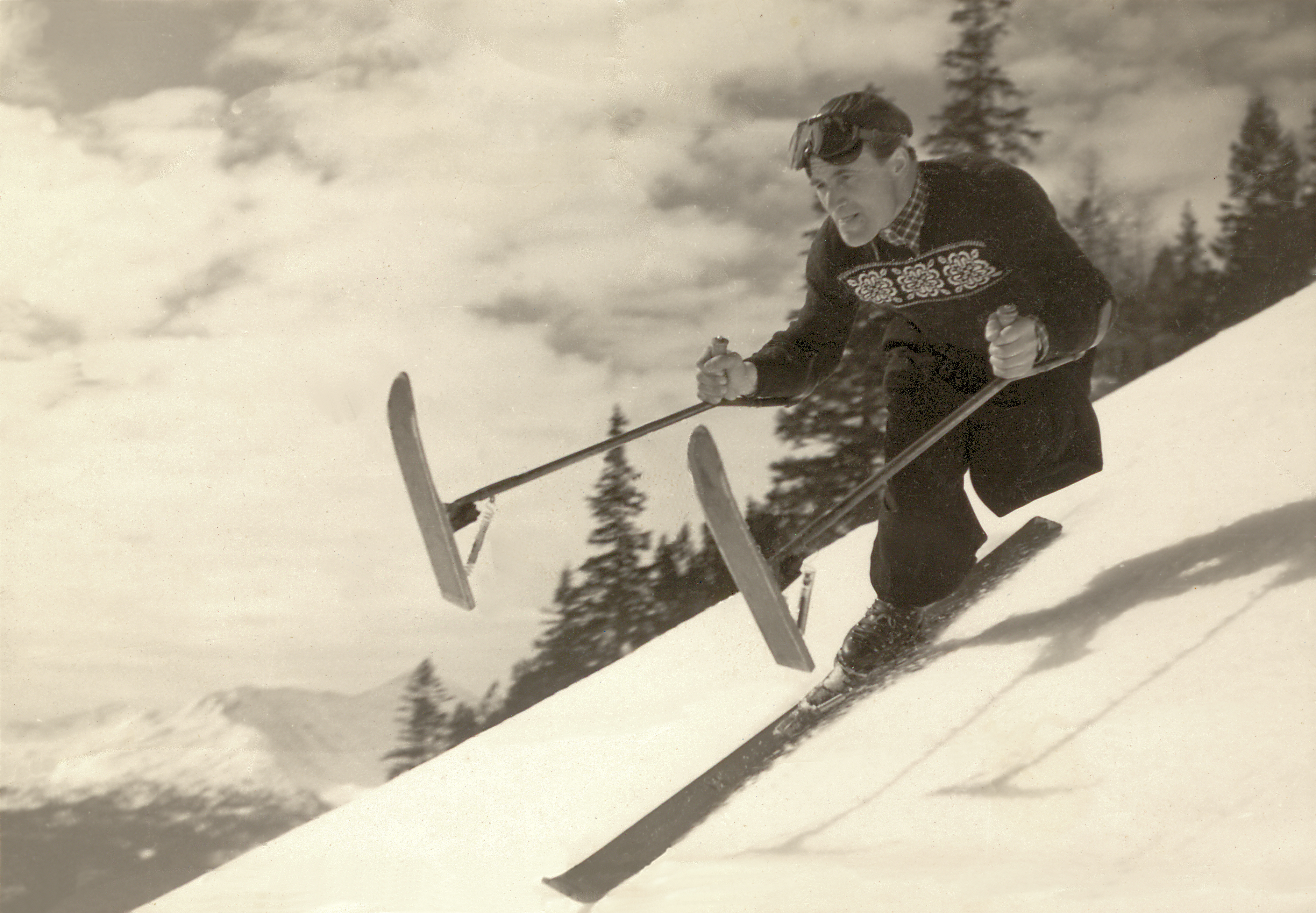 Crutch skier Erich Steiner driving downhill in Ehrwald / Tirol